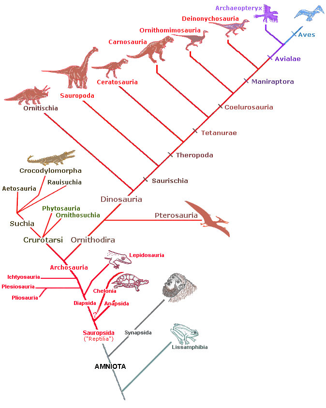 Cladogram of the former "Reptilia" (red)